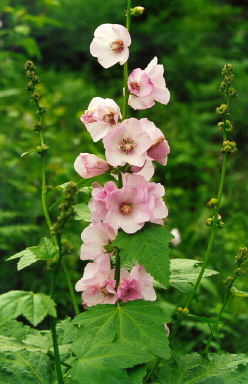 Iliamna rivularis, Clearwater National Forest, USA